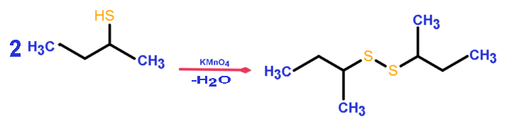 Sec-butyl-disulfide synthesis